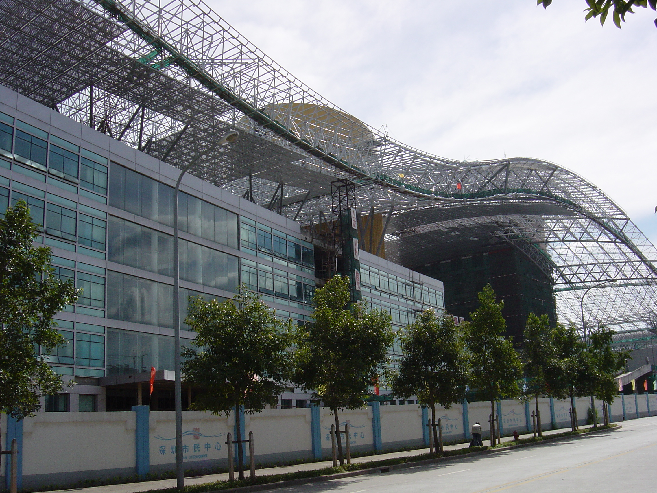 Detail of Shenzhen Civic Center